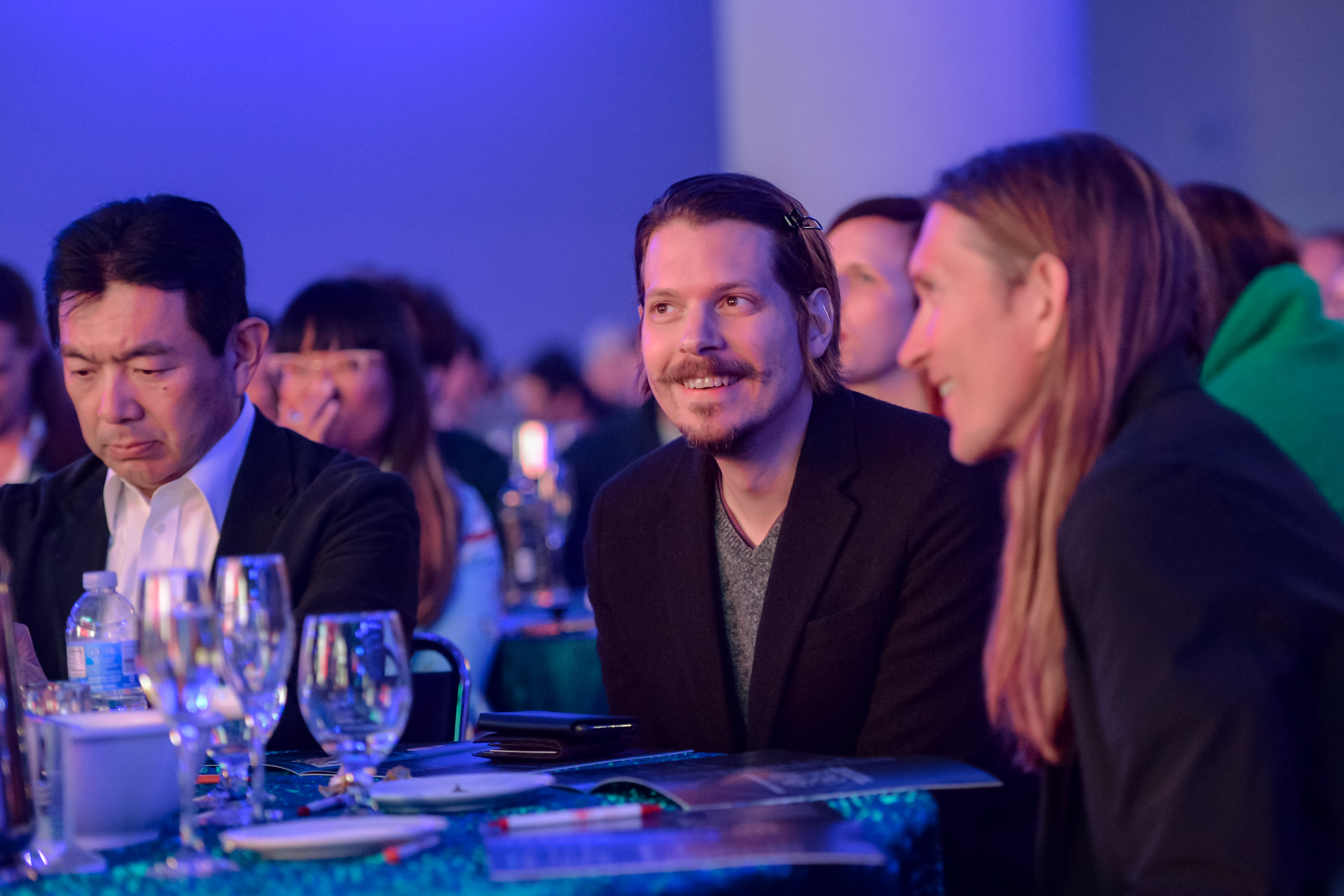 Lucas Pope attends the 2018 Game Developers Choice Awards at the 2019 Game Developers Conference.